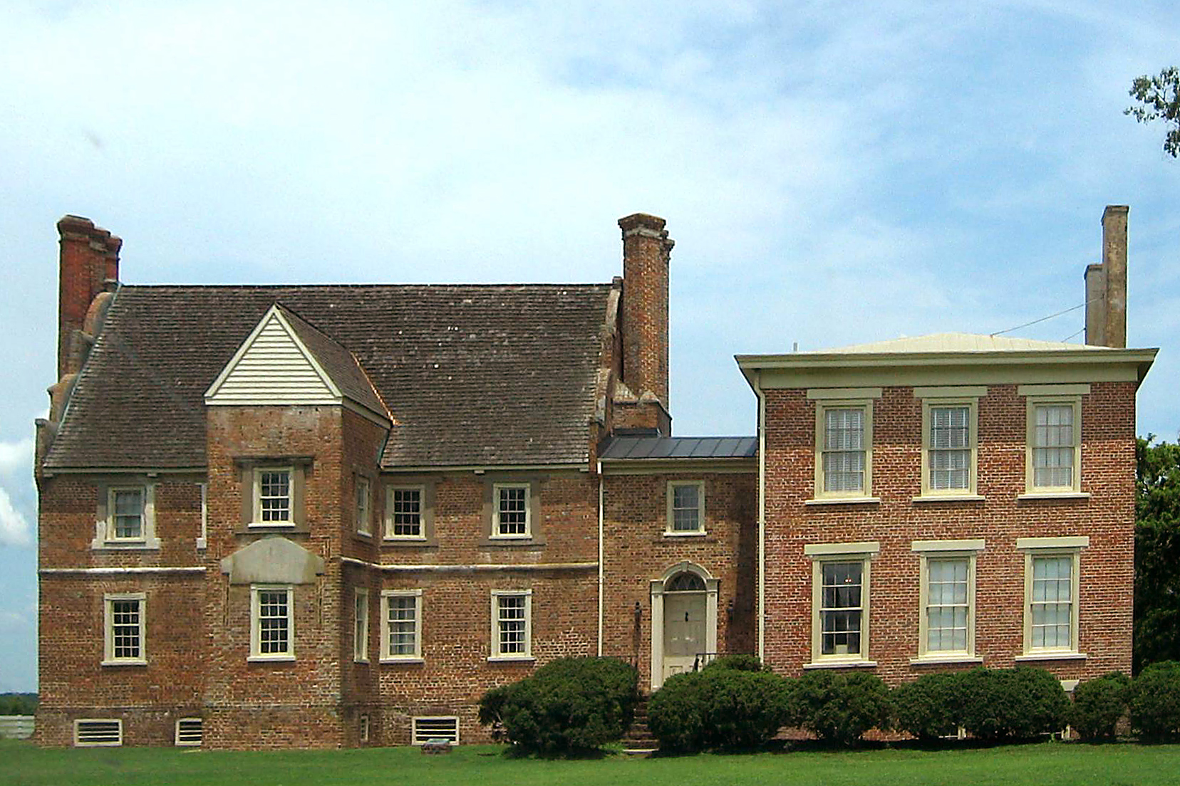 Bacon's Castle, also variously known as "Allen's Brick House" or the "Arthur Allen House" is located in Surry County, Virginia